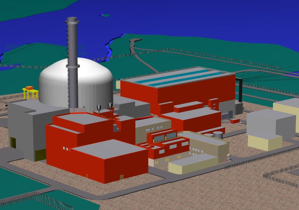 Computer designed picture of the planned European Pressurized Water Reactor (EPR) Published with the friendly permission of Framatome ANP, Germany.